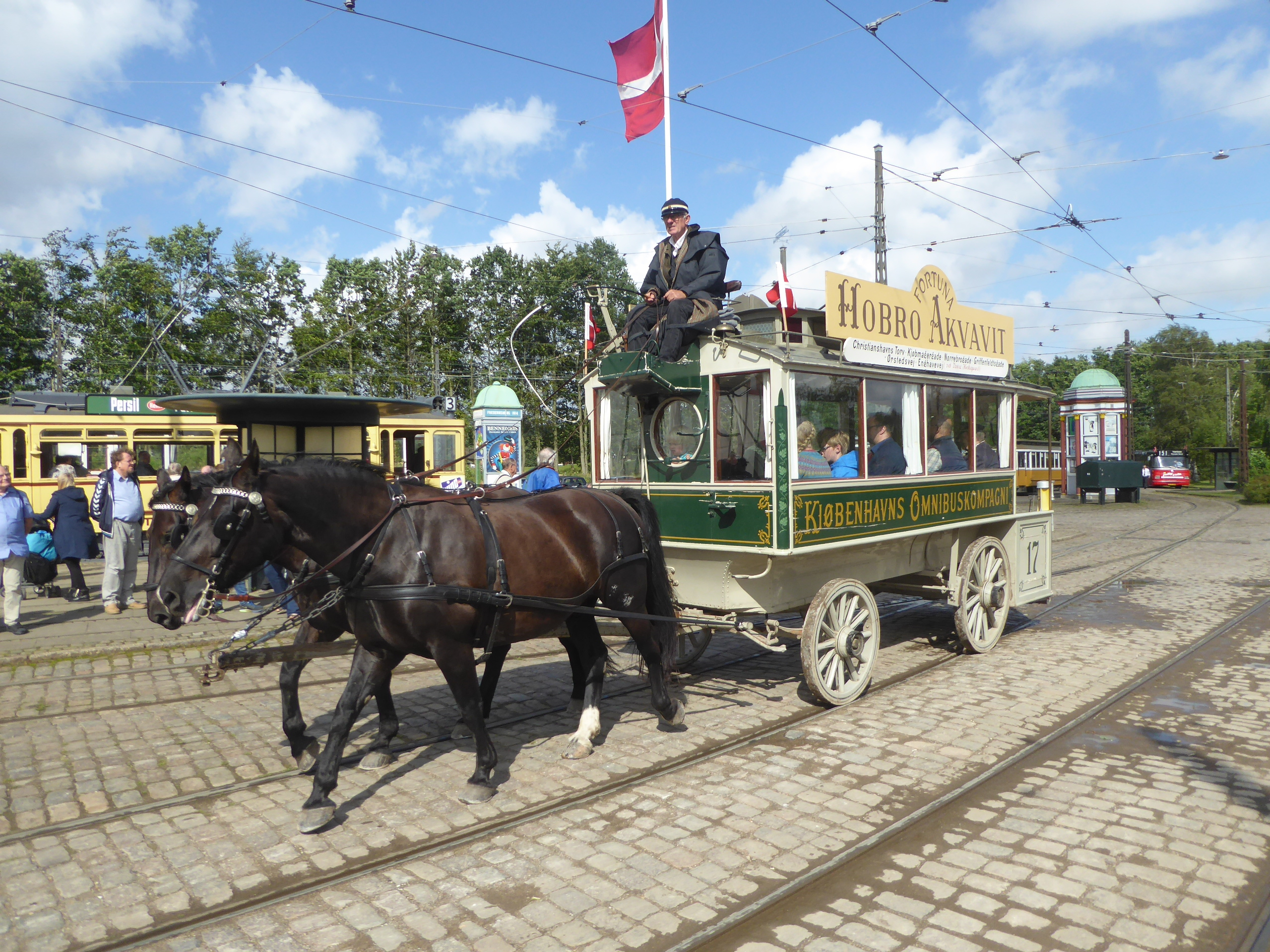 The horse-drawn bus KO 17 from 1897 from Copenhagen at Sporvejsmuseet Skjoldenæsholm. The museums provides trips with it to the estate Skjoldenæsholm and back on certain days.